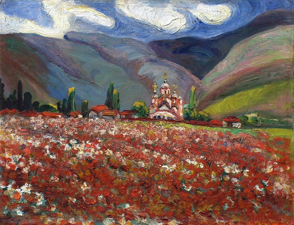 Opus: Надежда Петровић: Косовски божури – Грачаница, 1913 (Nadežda Petrović: Kosovski božuri – Gračanica, 1913 / Kosovo Peonies – Gracanica by Nadezda Petrovic). 36,2 х 46,5 cm, Народни музеј у Београду (Narodni muzej u Beogradu / National Museum Belgrade). Content: Peonies of Kosovo in front of Gračanica monastery, painted impressionistically by Nadežda Petrović in the year of the Second Balkan War (1913); (Serbian) and (English) by Љубица Миљковић (Ljubica Miljković), archived from on February 4th, 2013, and from on February 5th, 2013.